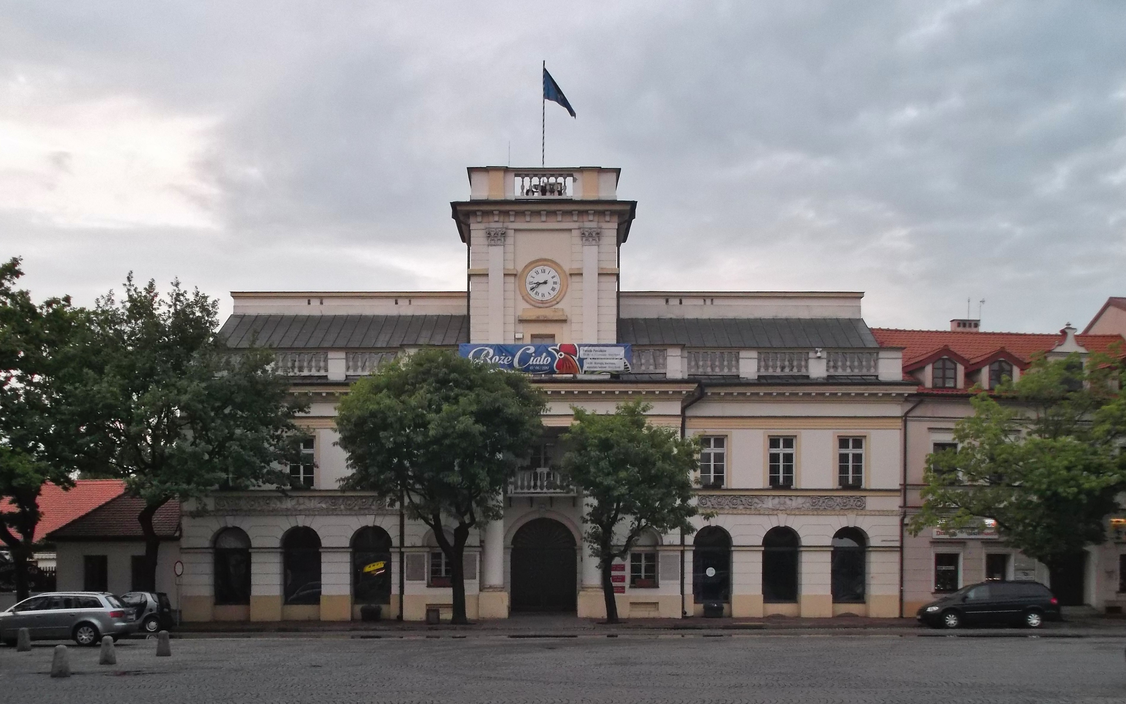 Town hall in Łowicz, Poland.